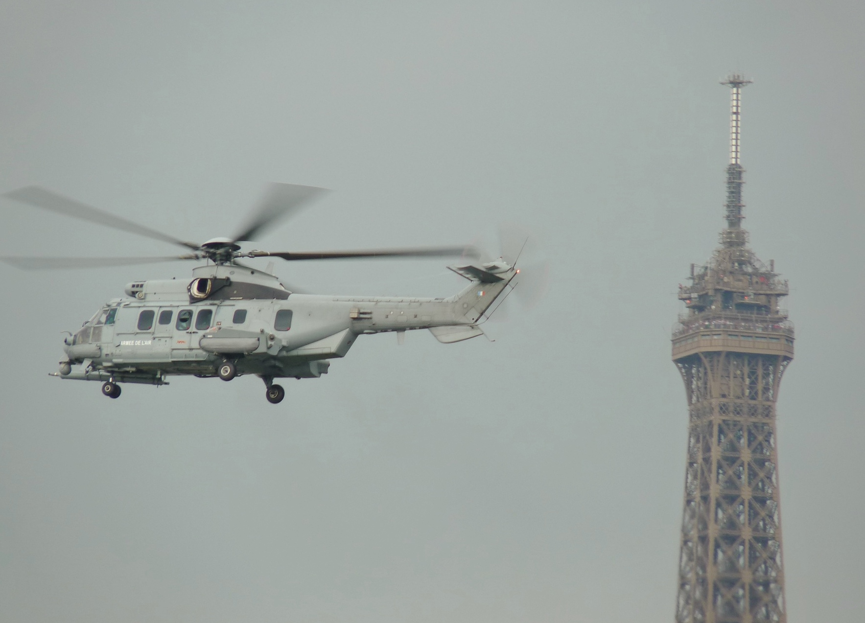 French Air Force Eurocopter EC-725 Cougar MkII landing near Hotel des Invalides in Paris on Bastille Day 2010